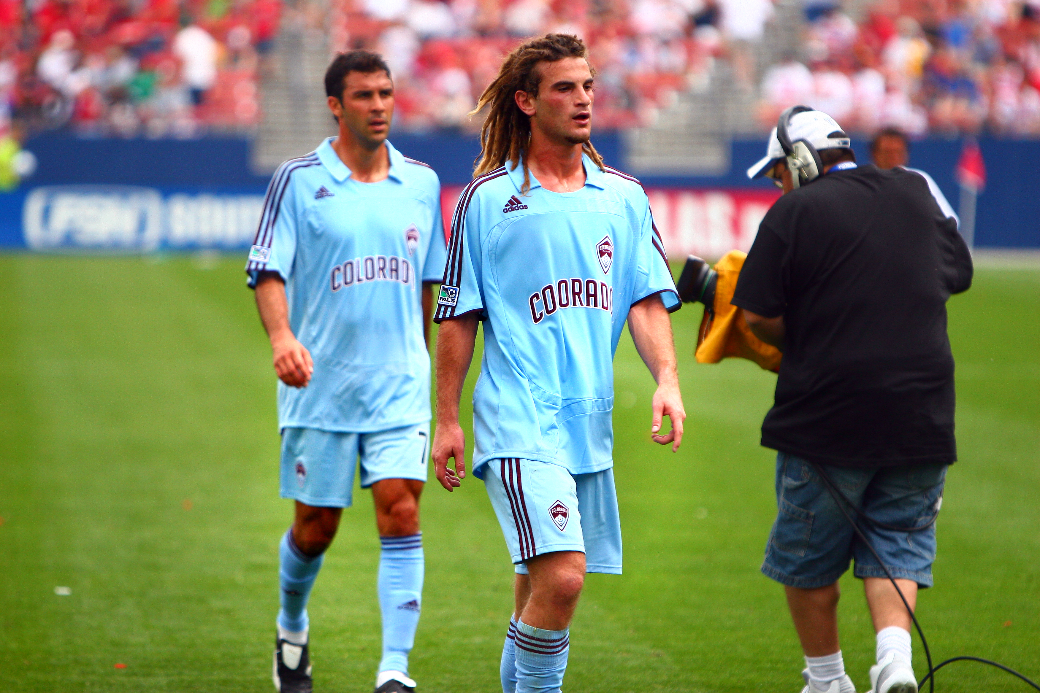 Jovan Kirovski and Kyle Beckerman of Colorado